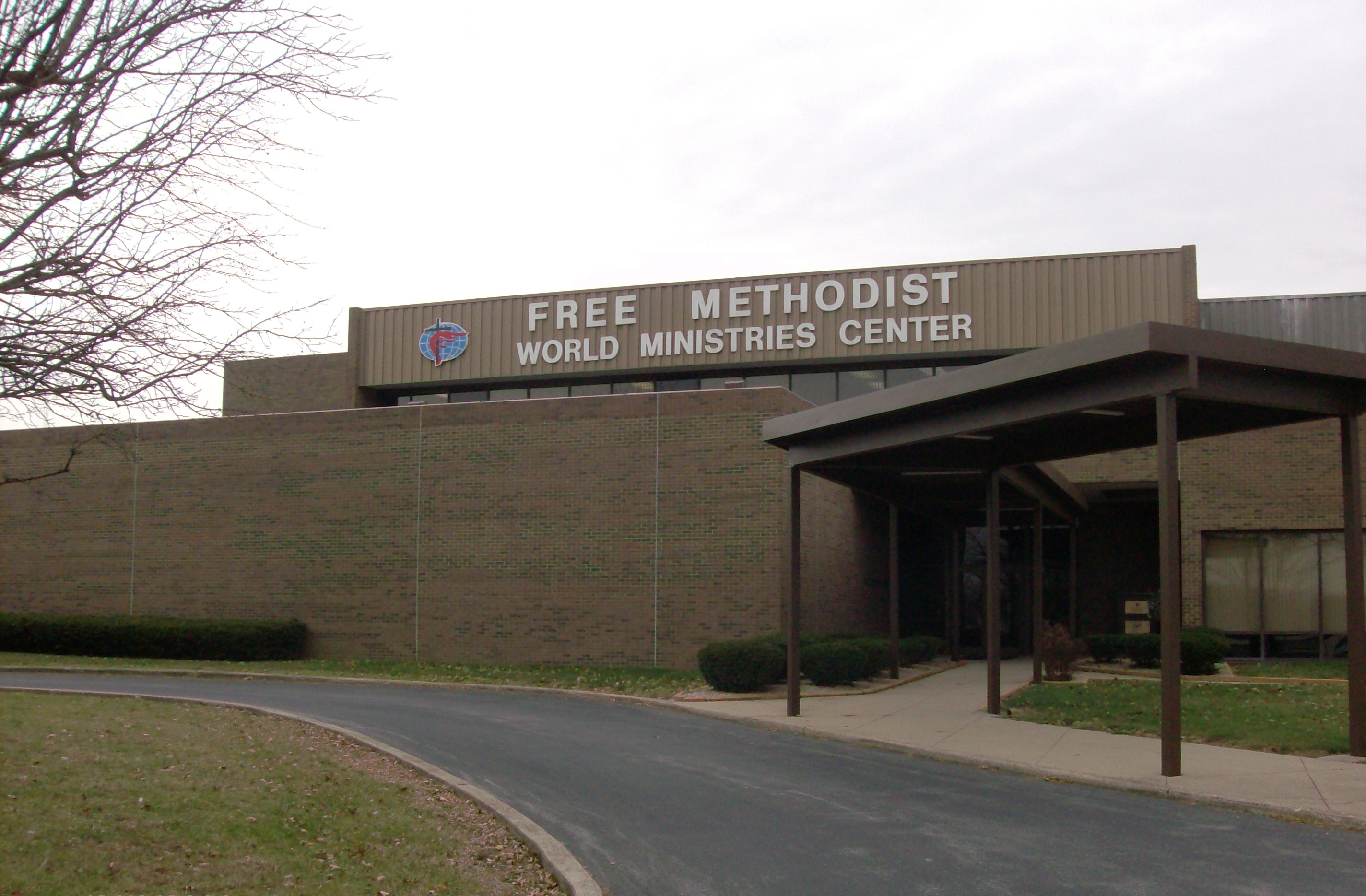 Free Methodist World Ministries Center, the Free Methodist headquarters in Indianapolis, Indiana.